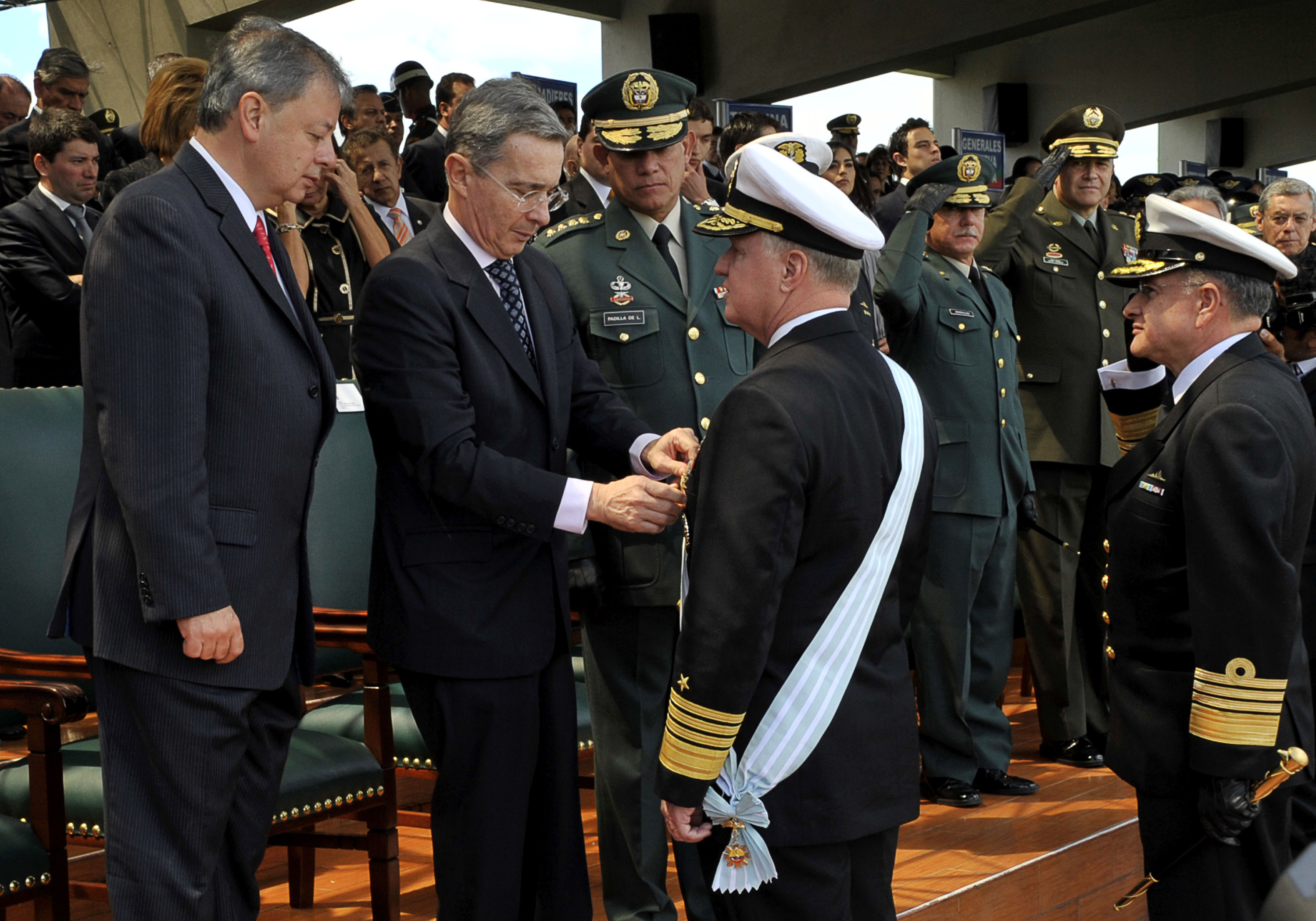 BOGOTA (Dec. 3, 2009) Chief of Naval Operations (CNO) Adm. Gary Roughead, middle, is presented the Admiral Padilla Naval Order of Merit by Colombian President Alvaro Uribe as Minister of Defense Gabriel Silva, left, Gen. Freddy Padilla, commander of Colombian military forces and Adm. Guillermo Barrera, right, commander of Colombian naval forces, look on. (U.S. Navy photo by Mass Communication Specialist 1st Class Tiffini Jones Vanderwyst/Released)